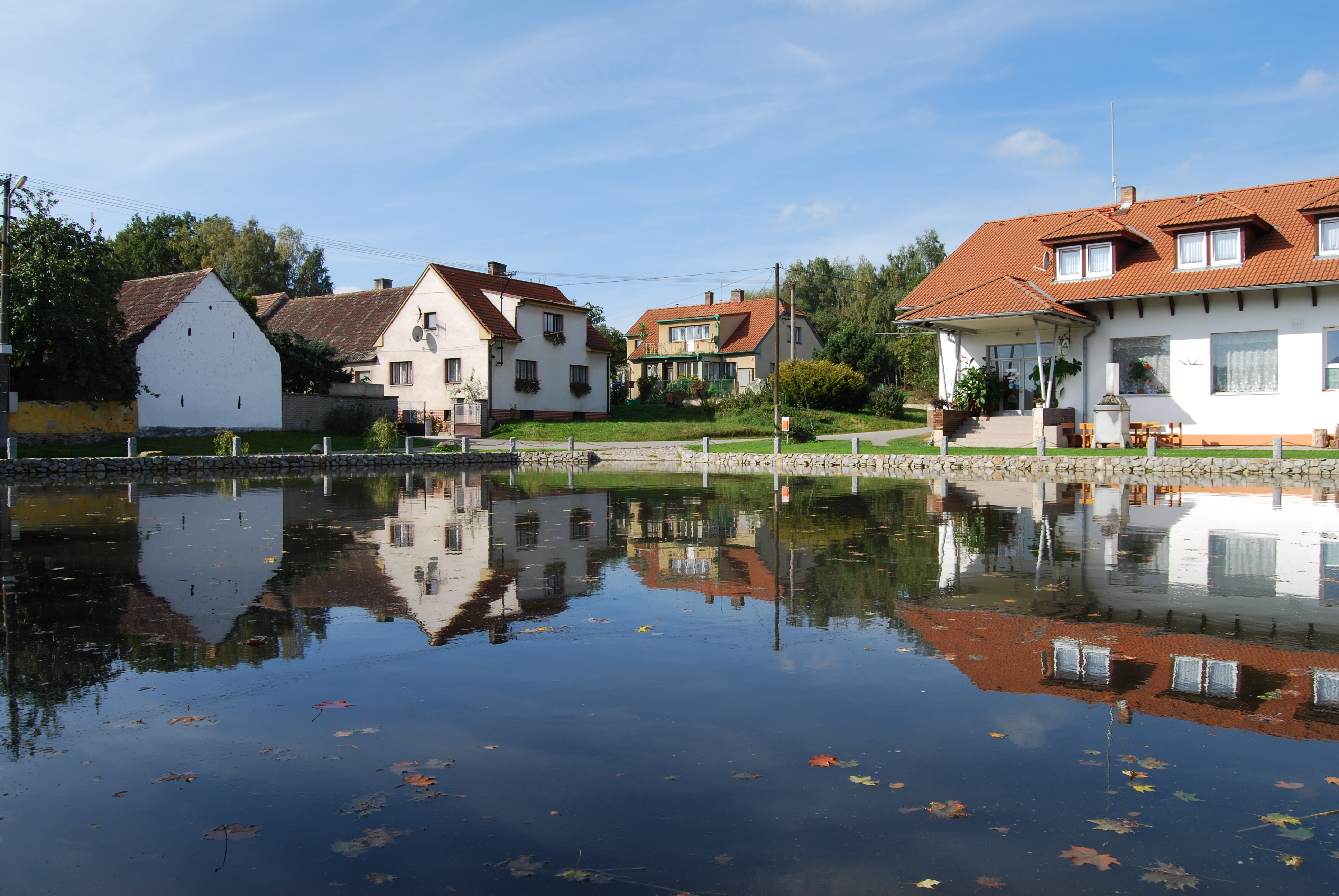 Pivkovice village in Strakonice District, Czech Republic. Pond in the centre of village